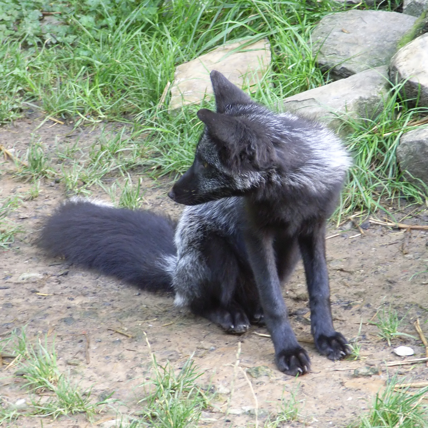 Silver fox